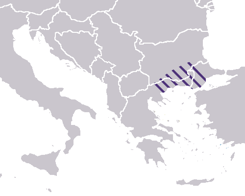 Approx. area of Macedonia Thema during Byzantine era